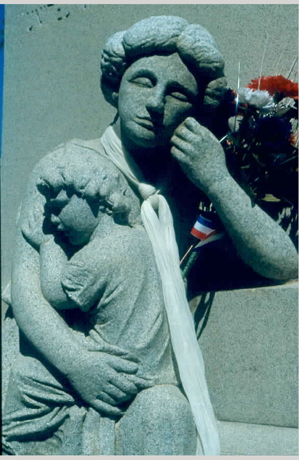 Photo by Einar Einarsson Kvaran , summer of 2005 - Ludlow Massacre